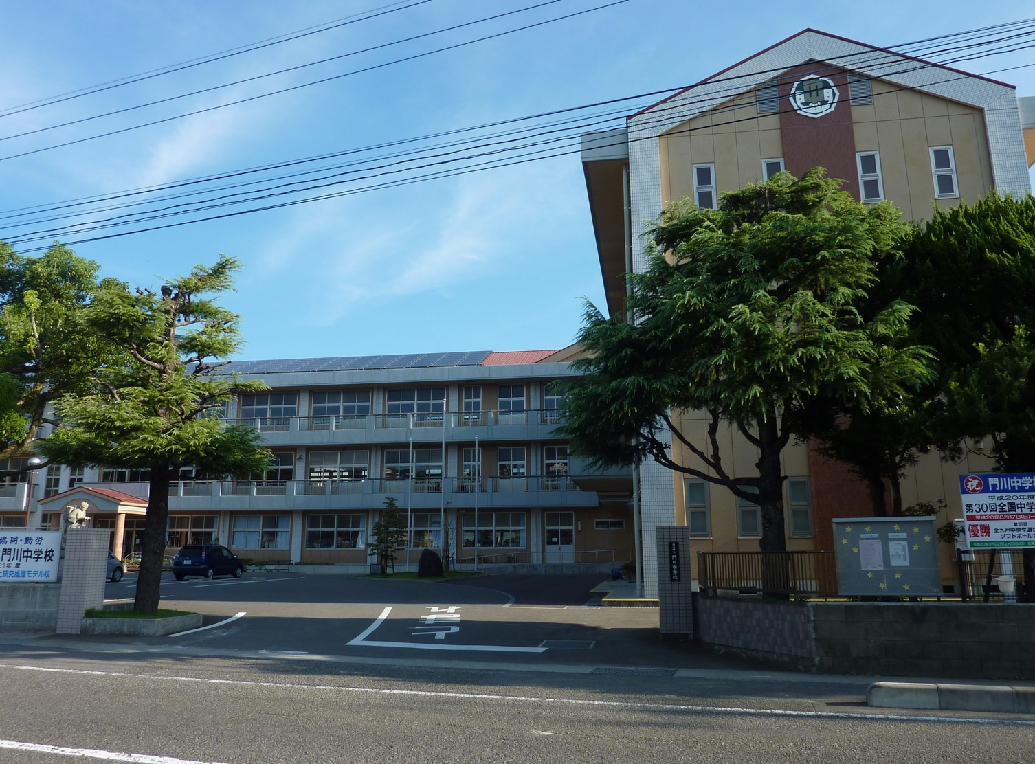 Kadogawa Junior High School (Kadogawa Town, Miyazaki Prefecture, Japan)